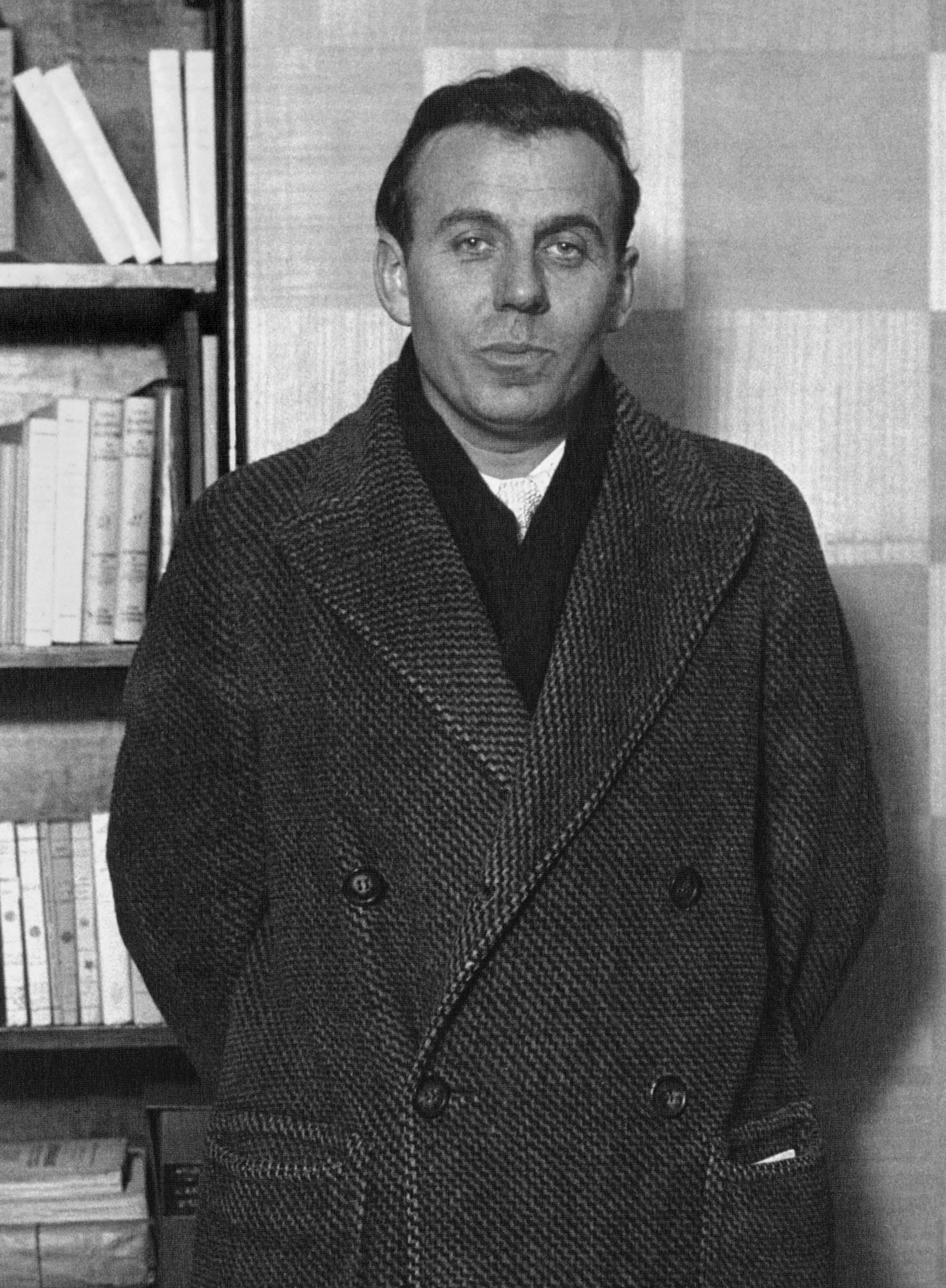 FLouis-Ferdinand Céline (1886-1958), French writer in 1932, the year he won the Renaudot prize for his novel Journey to the End of the Night. (Cropped print 2.)